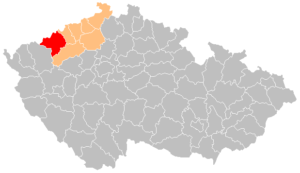 District of Chomutov